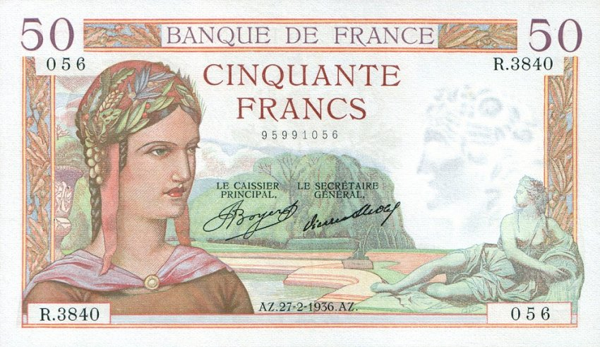 France 50 Francs-1936